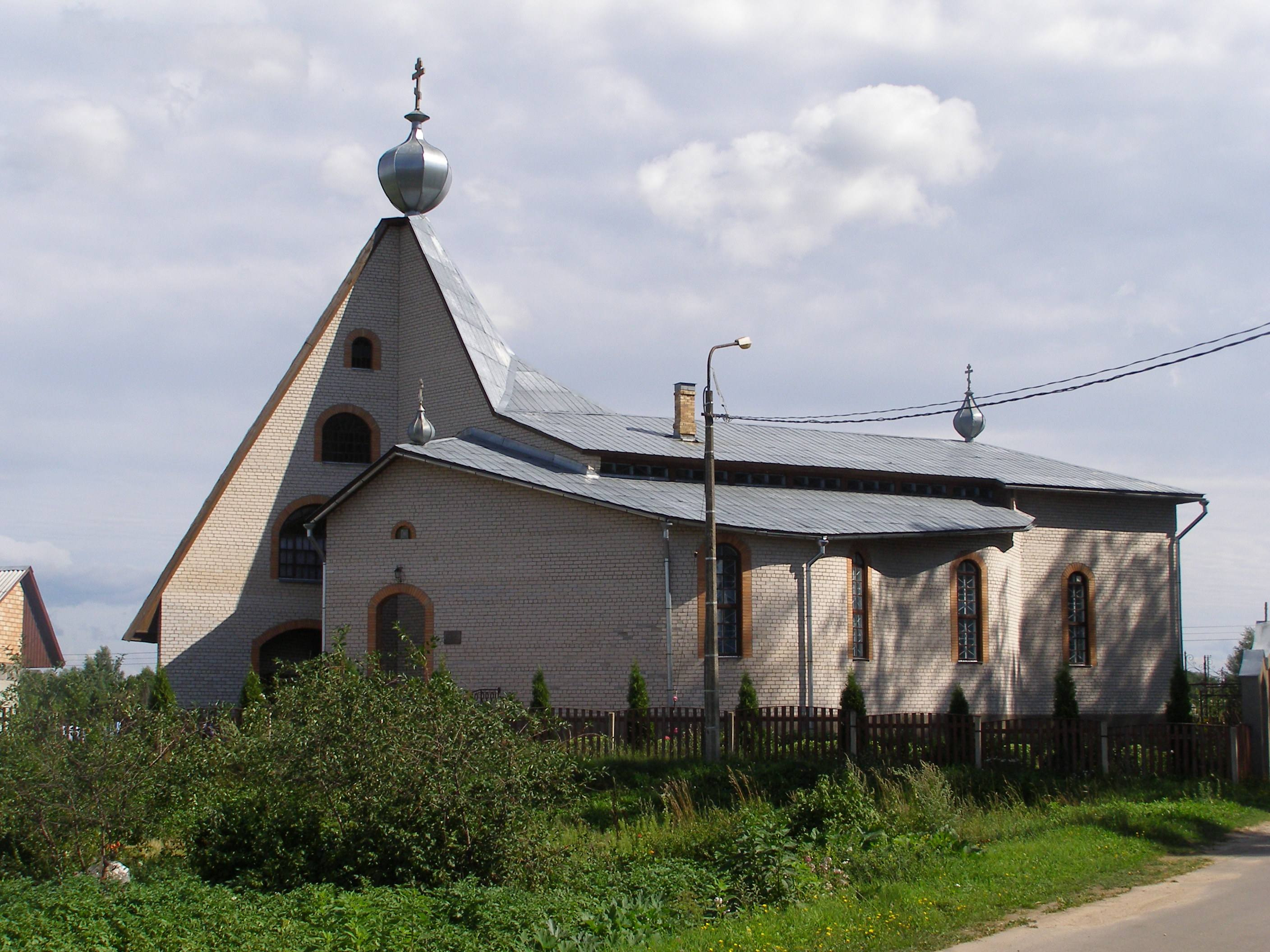 Old believers church in Preiļi, Latvia